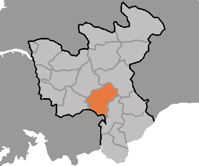 Map of Pyongsan, Hwanghae-pukto, DPRK, 2006